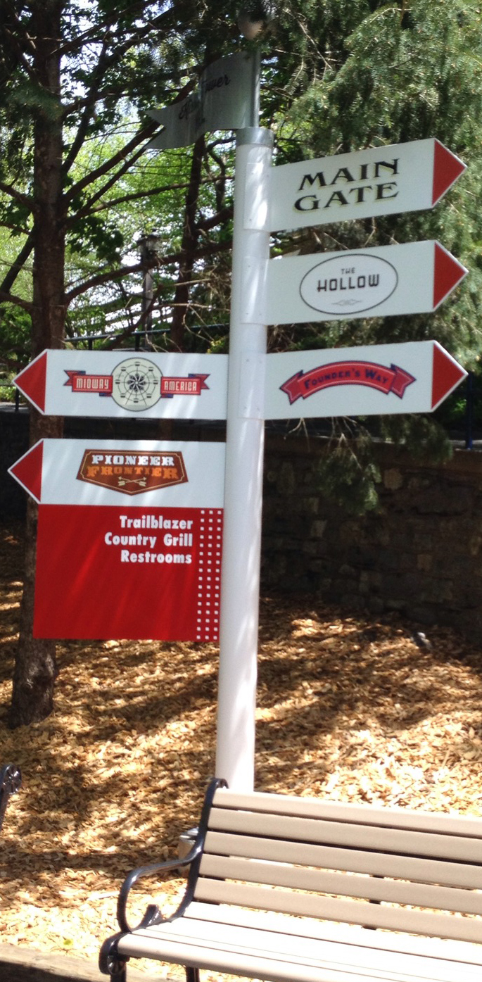 A directional sign in the Kissing Tower Hill region of Hersheypark.